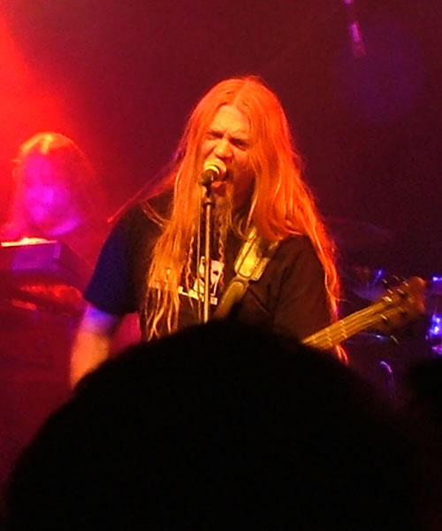 Marco Hietala from Tarot